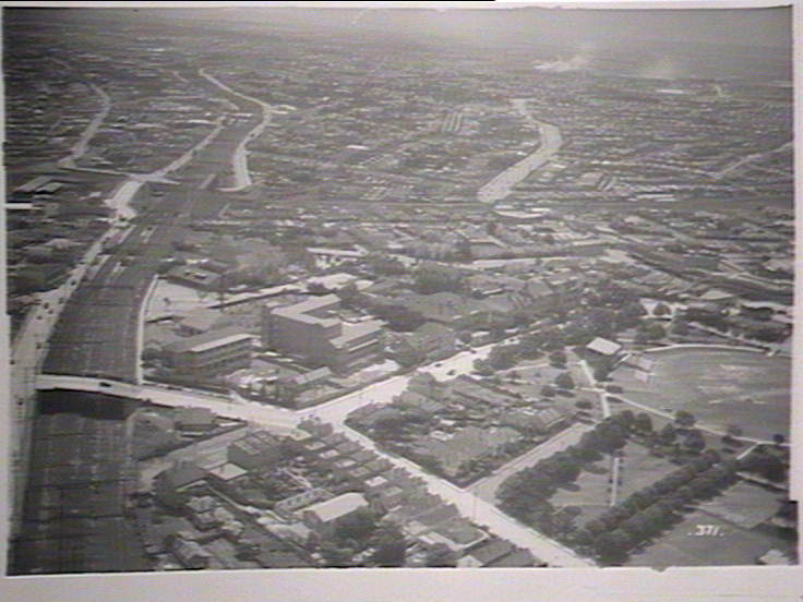 Aerial shot of Lewisham, NSW, 1930s.